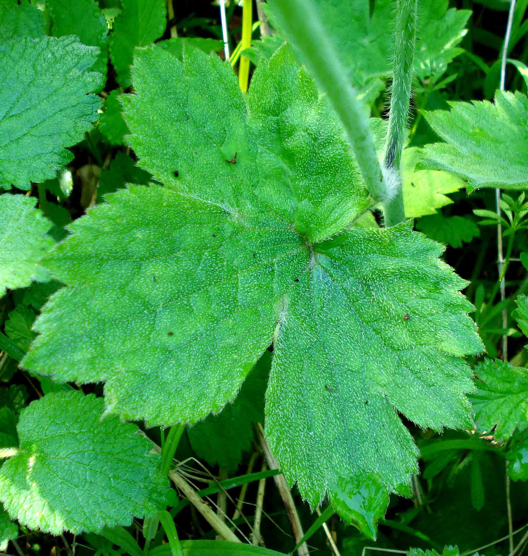 Ranunculus lanuginosus (Unterfranken, Germany)